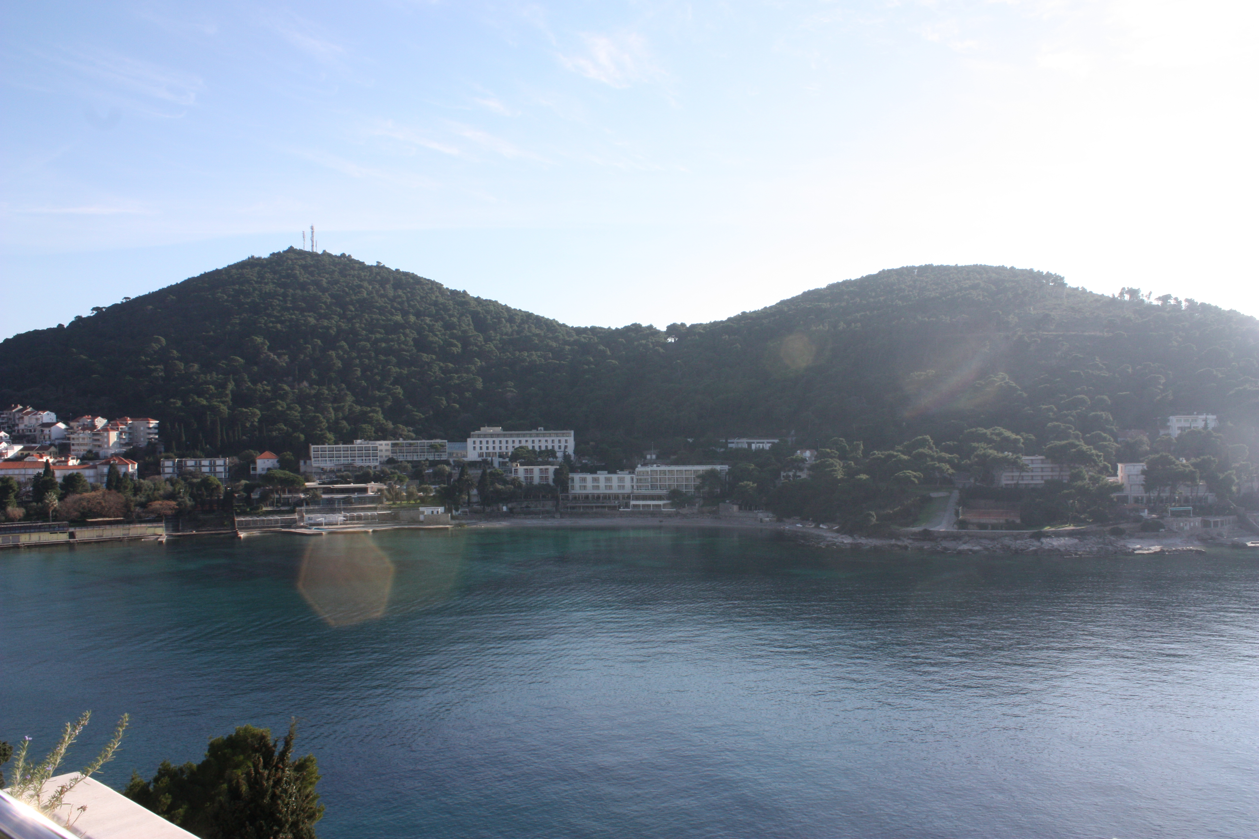 Hill Petka on the pneninsula Lapad